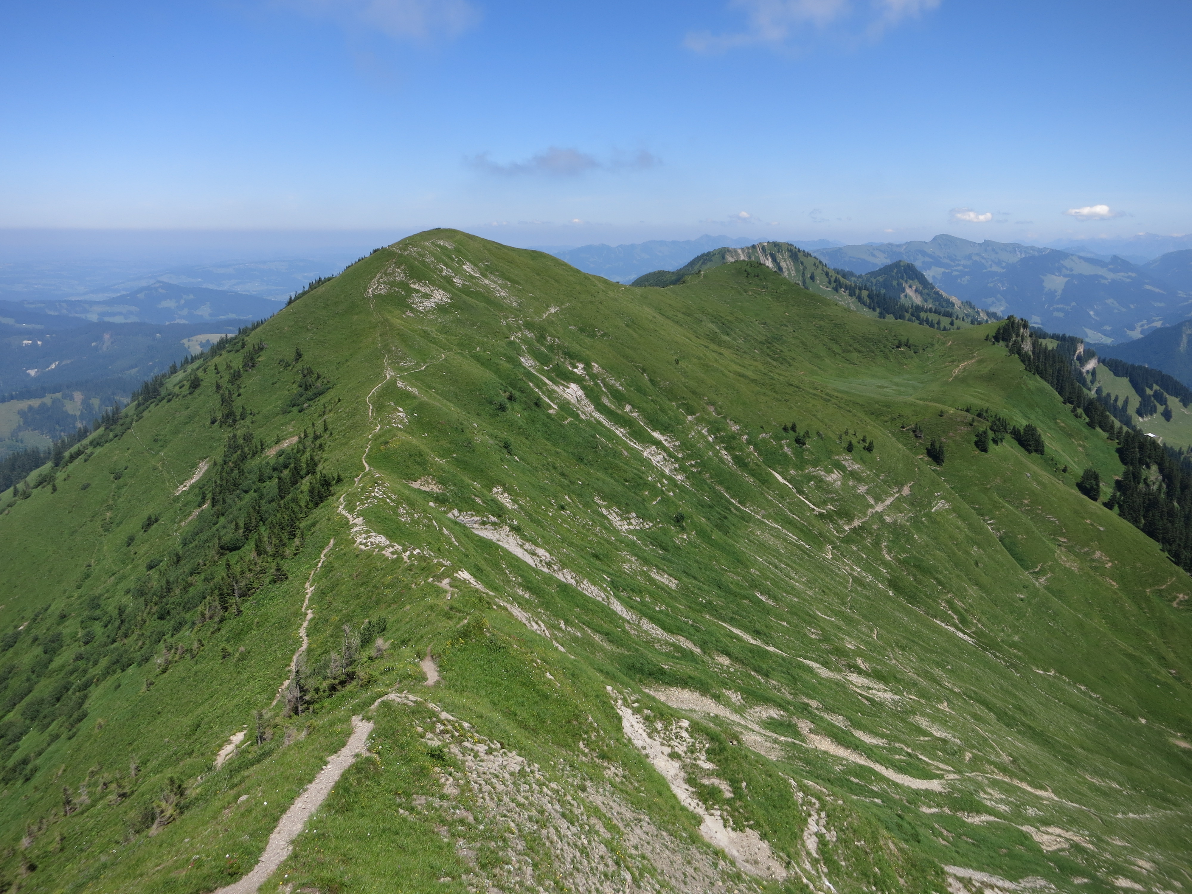 Mountain range First near Dornbirn, Austria